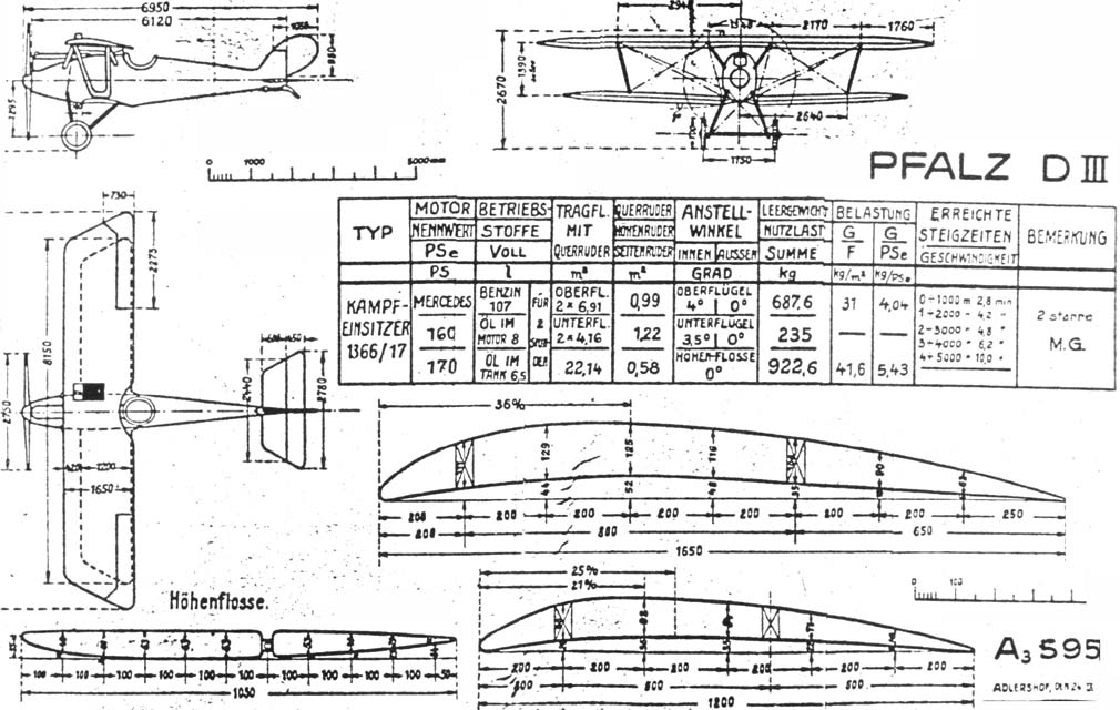 Pfalz D.III German World War 1 single seat fighter